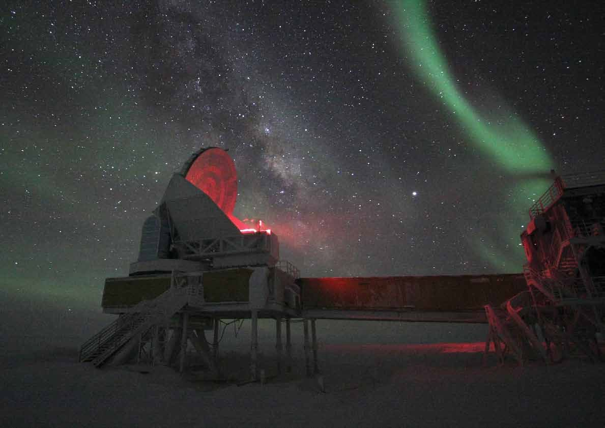 Figure 1.1. The South Pole Telescope during the long polar night. Source: Keith Vanderlinde.